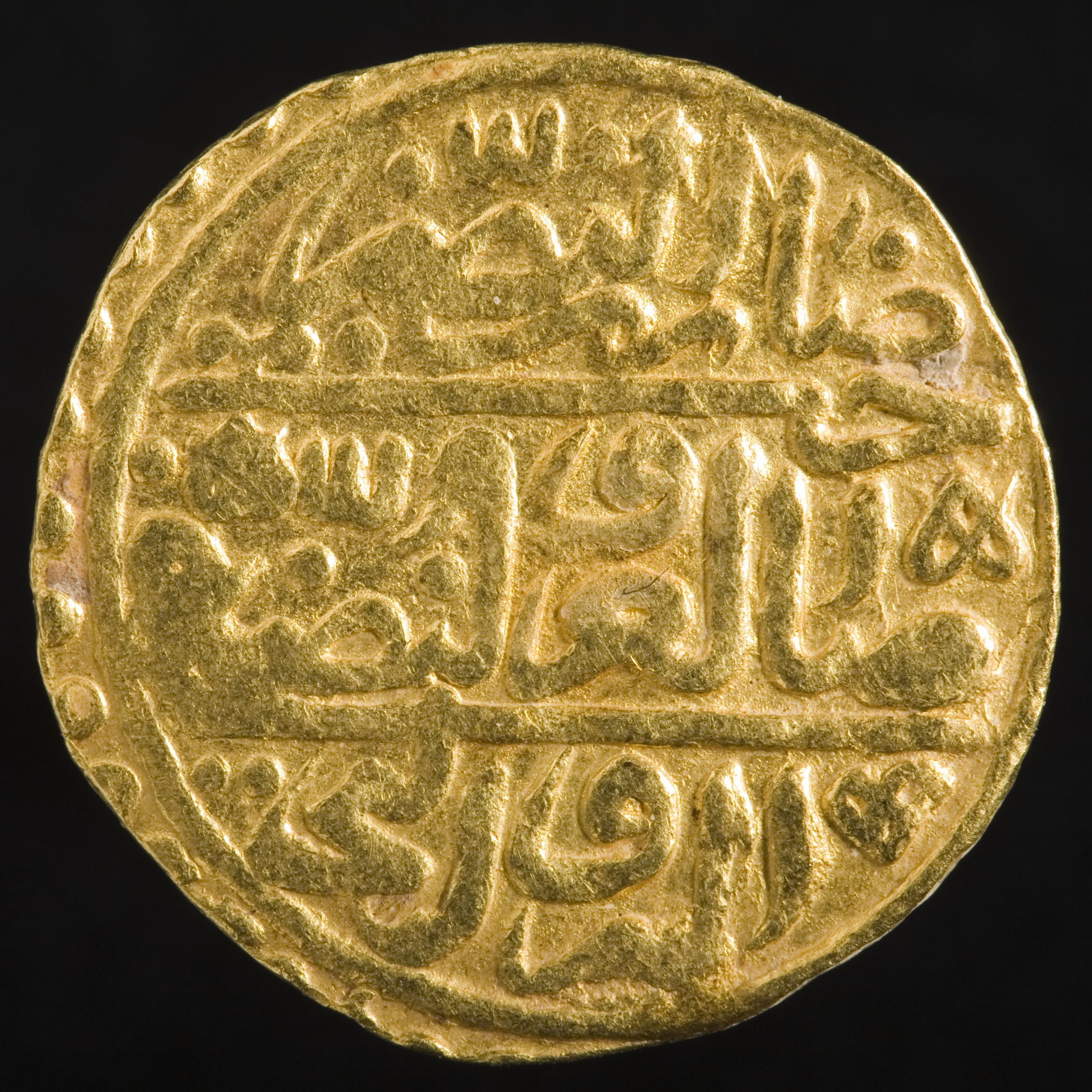 Egypt, A.H. 974/1566 A.D. Tools and Equipment; coins Gold Diameter: 3/4 in. (1.91 cm); Weight: 0.12 oz (3.48 g) Purchased with funds provided by the Joan Palevsky Bequest (M.2006.143.1) Islamic Art